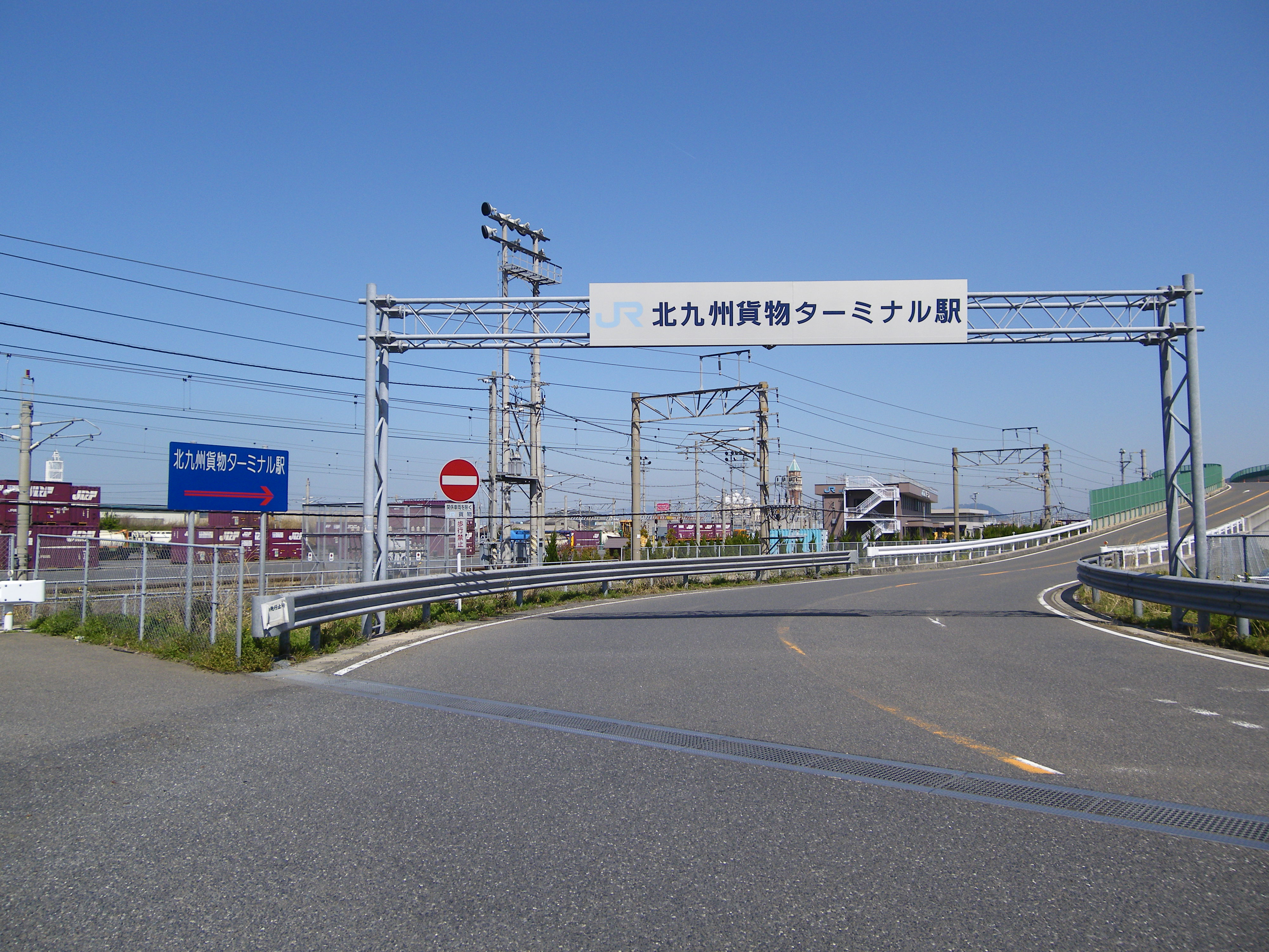 Kitakyushu Freight Terminal (People except JR staff members are prohibited from going across the gate.)